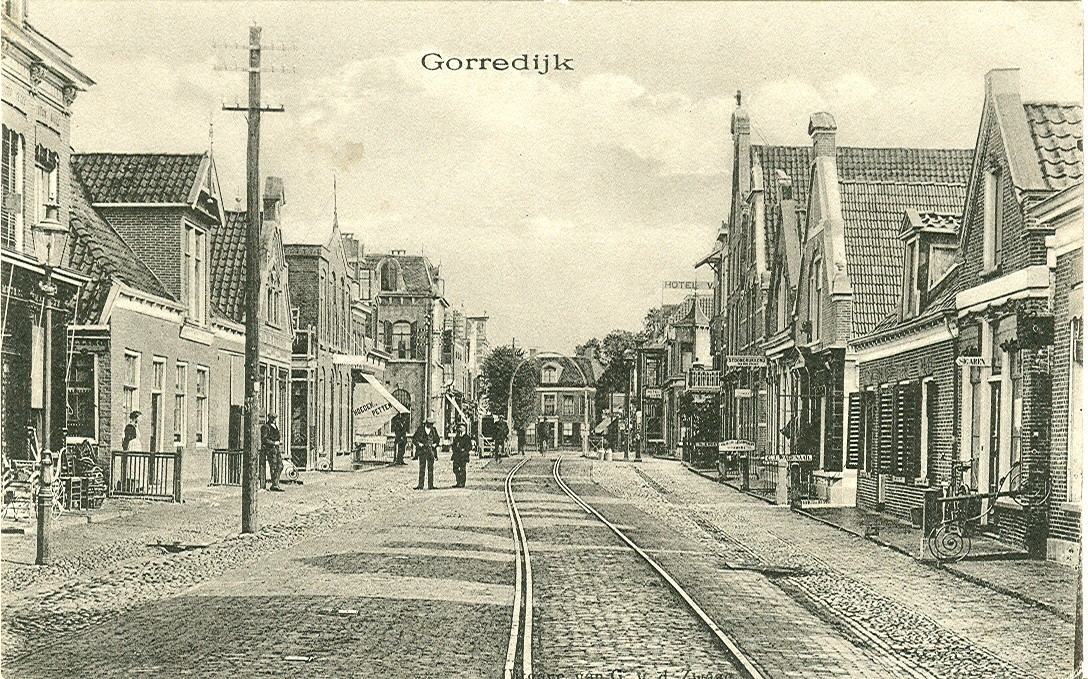 Postcard, undated ( ca.1914 ). Title: "Gorredijk"